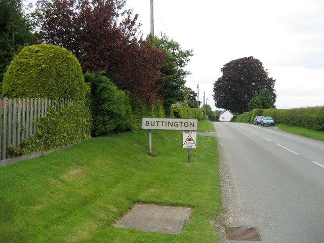 Entering Buttington, near to Buttington, Powys, Great Britain. Along the B4388, entering he community of Buttington from the south.